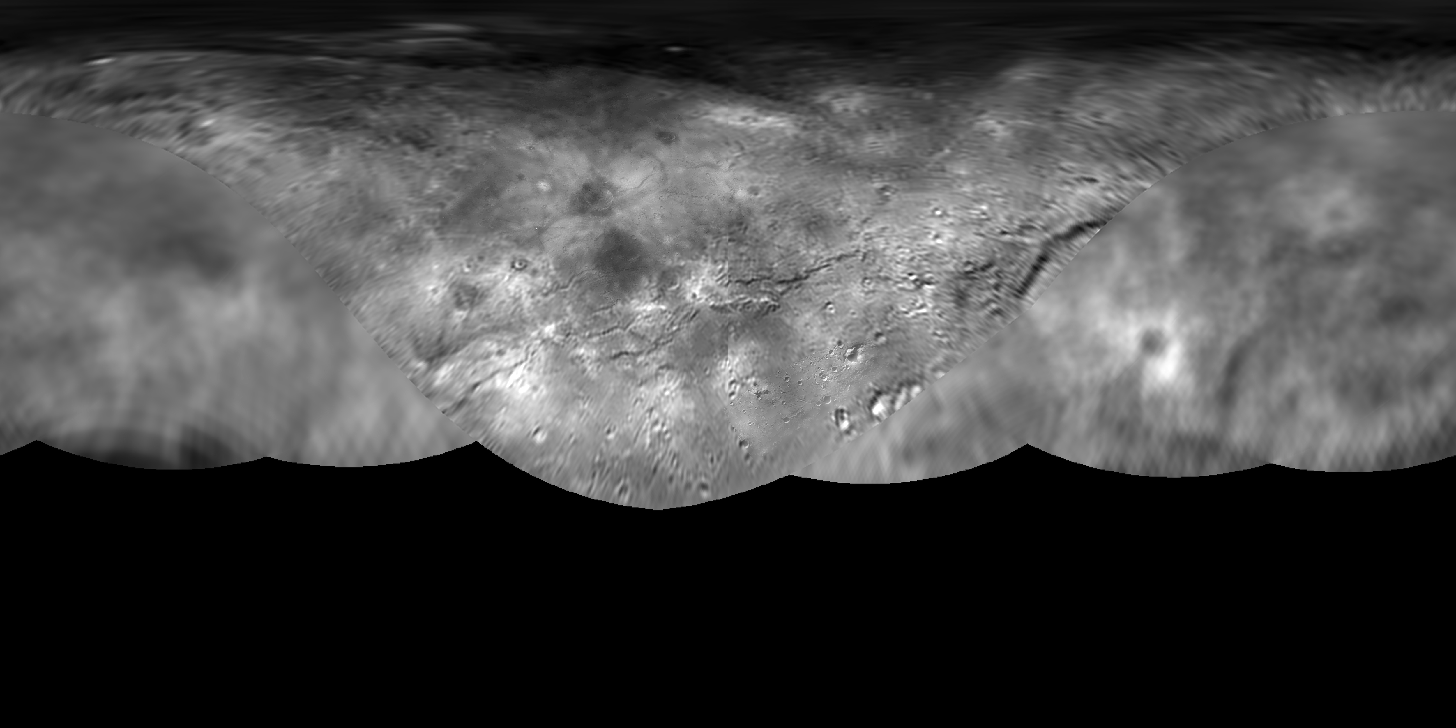 original description: The science team of NASA's New Horizons mission has produced this global map of Pluto’s largest moon, Charon. The map includes all available resolved images of the surface acquired between July 7-14, 2015, at pixel resolutions ranging from 40 kilometers (24 miles) on the anti-Pluto facing hemisphere (left and right sides of the map), to 400 meters (1,250 feet) per pixel on portions of the Pluto-facing hemisphere – the side facing the New Horizons spacecraft when it flew past the dwarf planet – at map center. Many additional images now stored on the spacecraft’s digital data recorders are expected to be transmitted "home" in fall 2015 and these will be used to complete the global map. The map is in simple cylindrical projection, with zero longitude (the Pluto-facing direction) in the center.